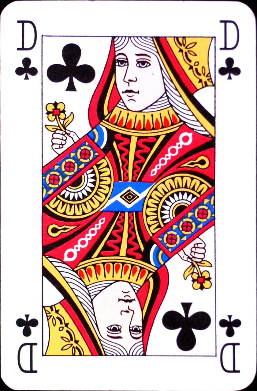 Queen of Clubs (cardset1)